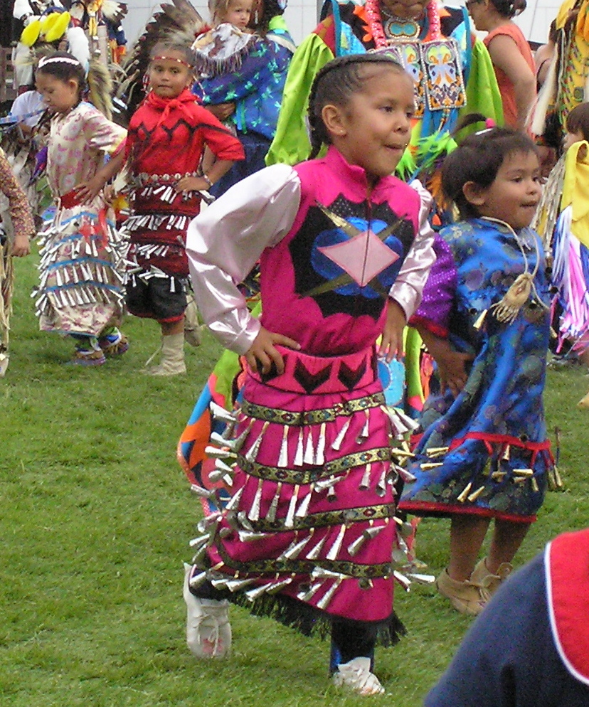 Tiny Tots Jingle Dress dancers at the Spokane Pow Wow, August 26, 2007